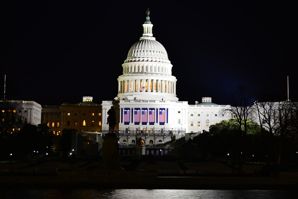 Capitol Building - The 2013 Presidential Inauguration will be held in Washington DC on Monday, January 21, 2013. By law, the President must take his Oath of Office on January 20th before noon. Since the 20th falls on a Sunday, there will be a private ceremony on that date and the public ceremony will be held the following day. A week of festivities will include the Presidential Swearing in Ceremony, Inaugural Address, Inaugural Parade and a night of Inaugural Balls and galas honoring the elected President of the United States. More Photos At